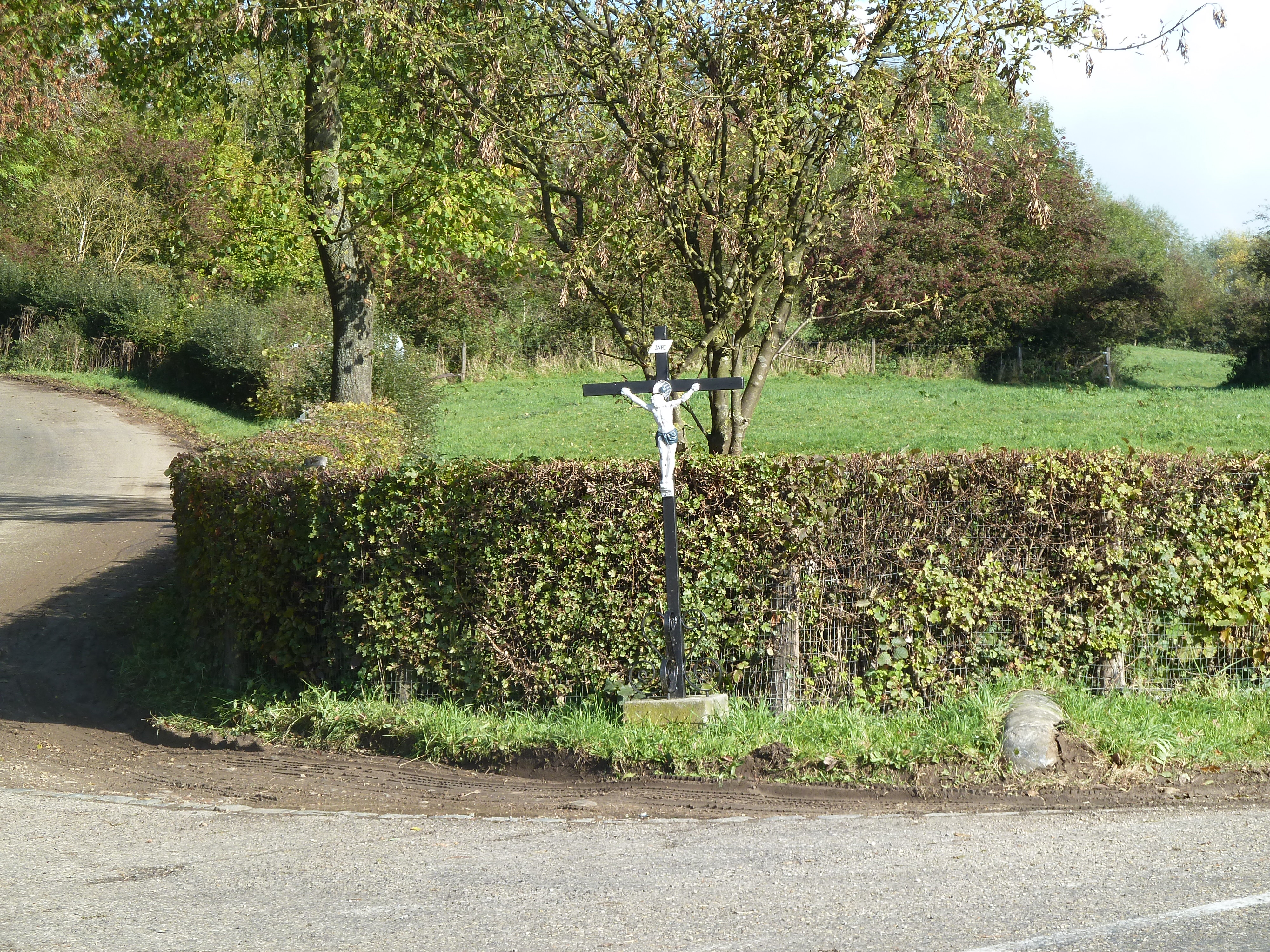 Cross at crossroad Onderschey-Kutersteenweg, Noorbeek, Limburg, the Netherlands